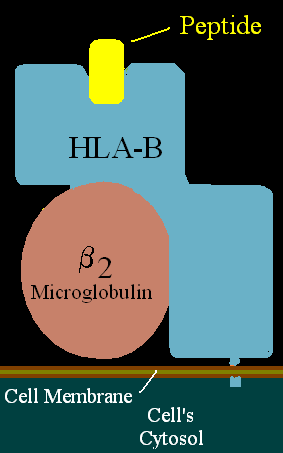 Illustation of an HLA-B showing the HLA-B 'alpha' chain, β2-Microglobulin, and the end of a peptide bound in the binding cleft. Illustration is based on HLA-B51 with bound HIV peptide